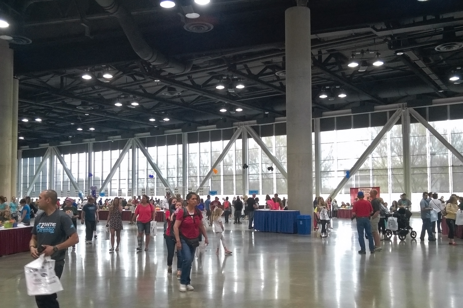 Glass Curtain Wall in the exhibition hall of the Spokane Convention Center.